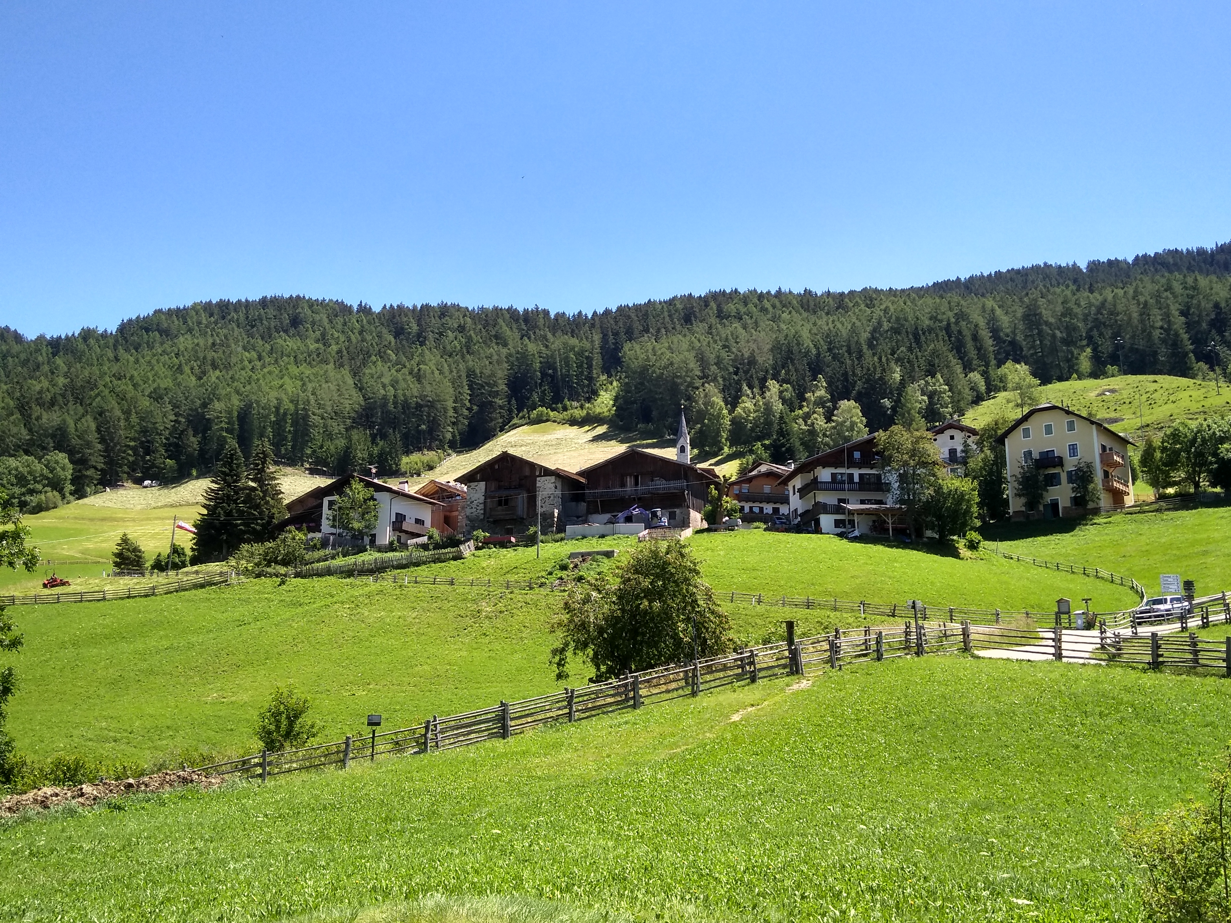 Aschbach in Algund, South Tyrol